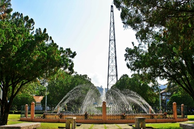 150-foot tower with inscription CARNEGIE USA 517. Build in early 1920 as wireless station connecting Cotabato, Malabang and Lanao.